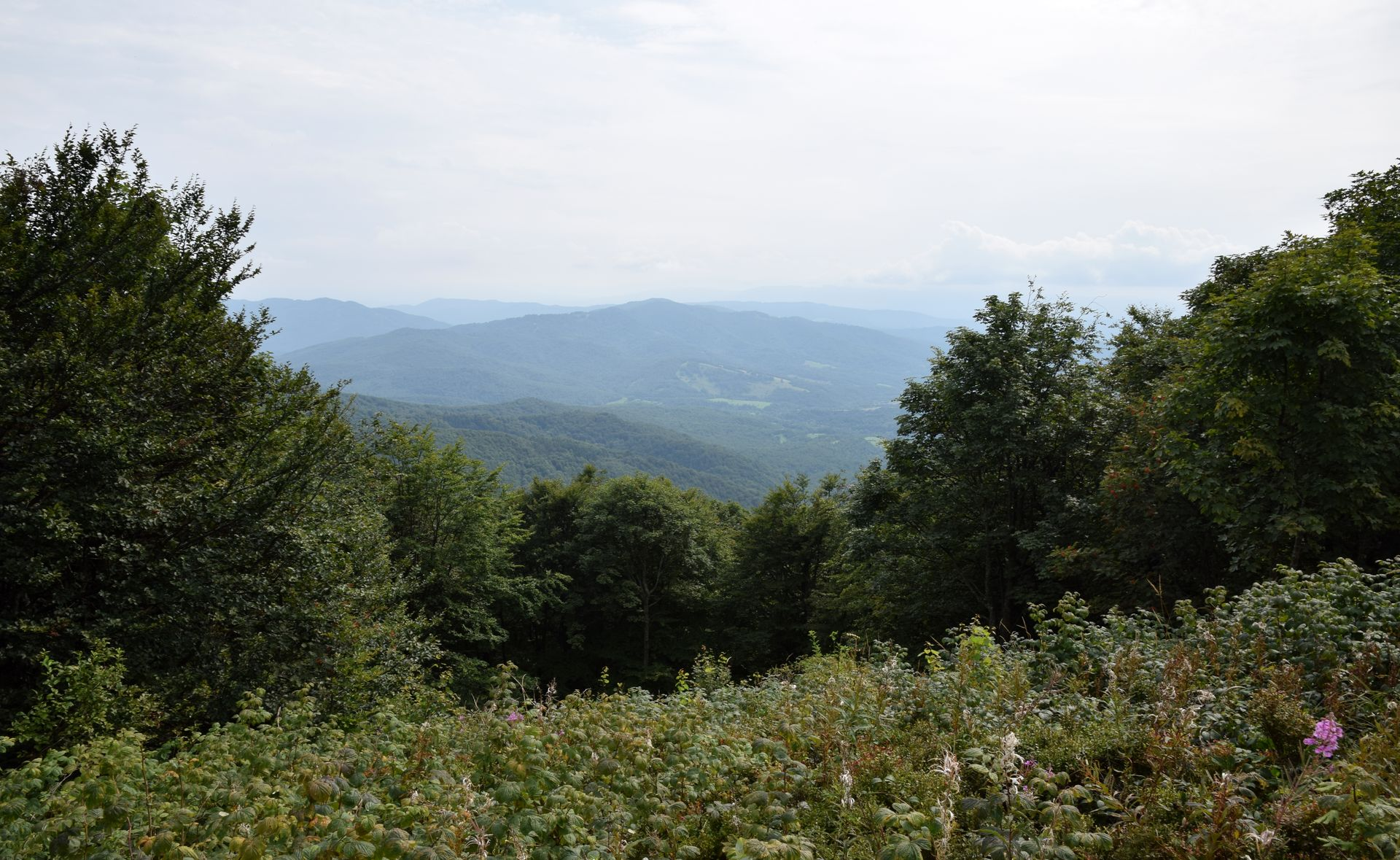 Okraglik on the Main Beskid Trail near village Smerek